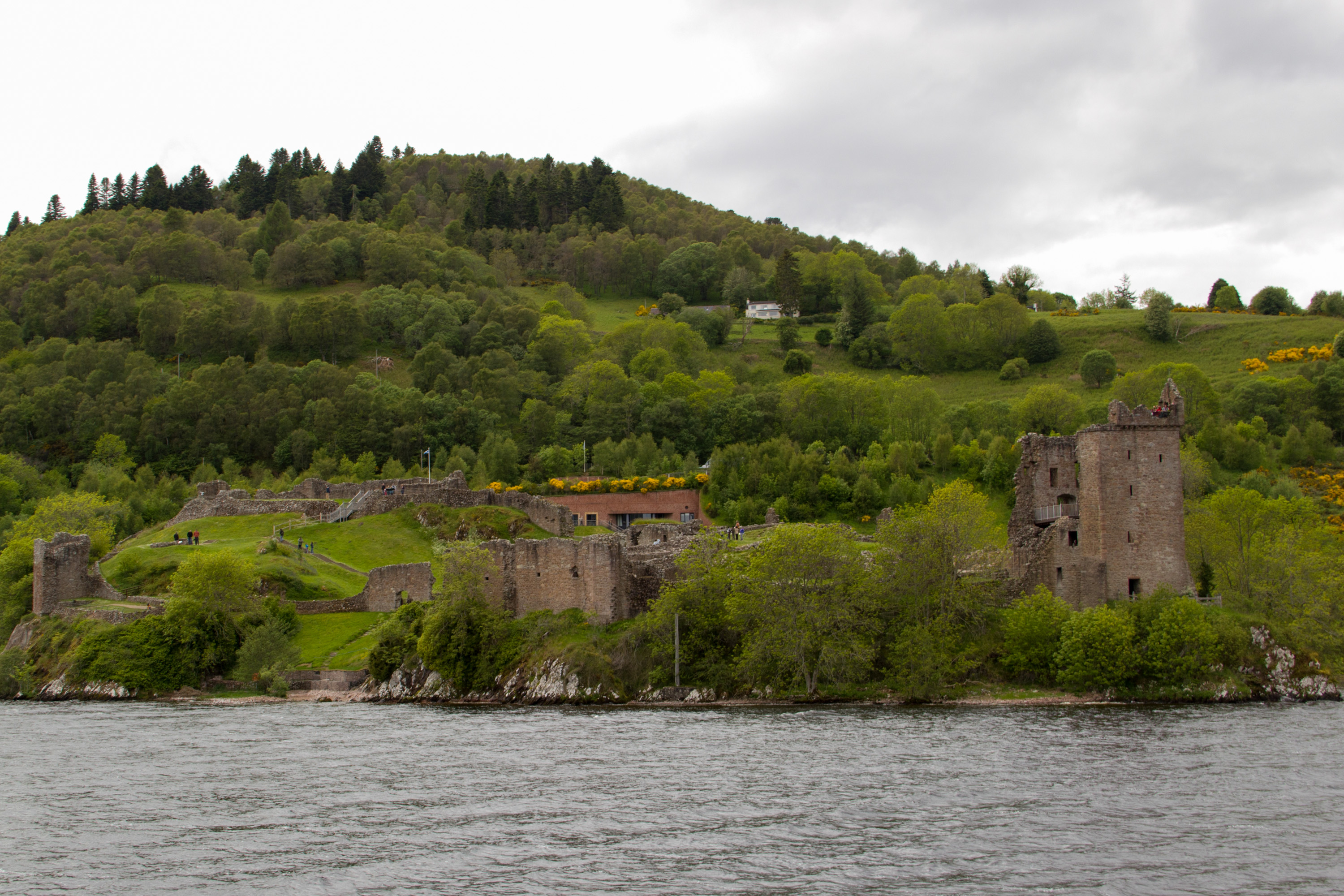 Urquhart Castle as seen from Loch Ness.